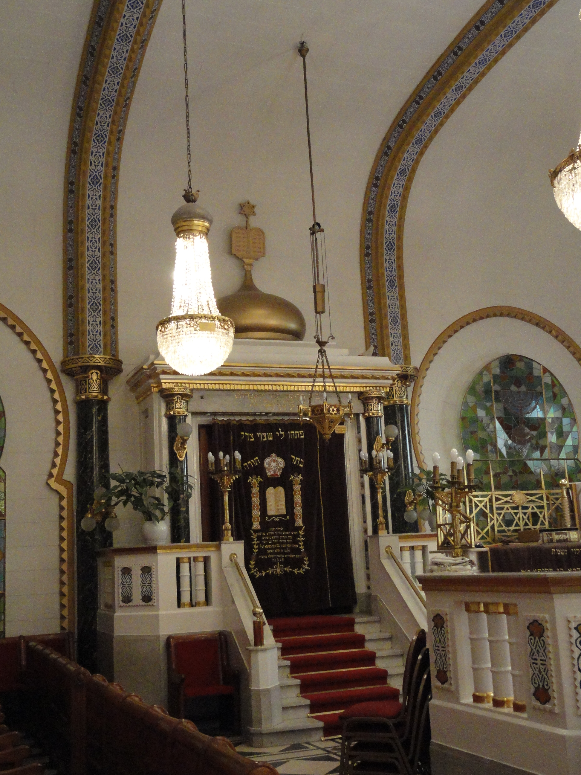 Synagogue Or Torah in Buenos Aires. The Torah ark